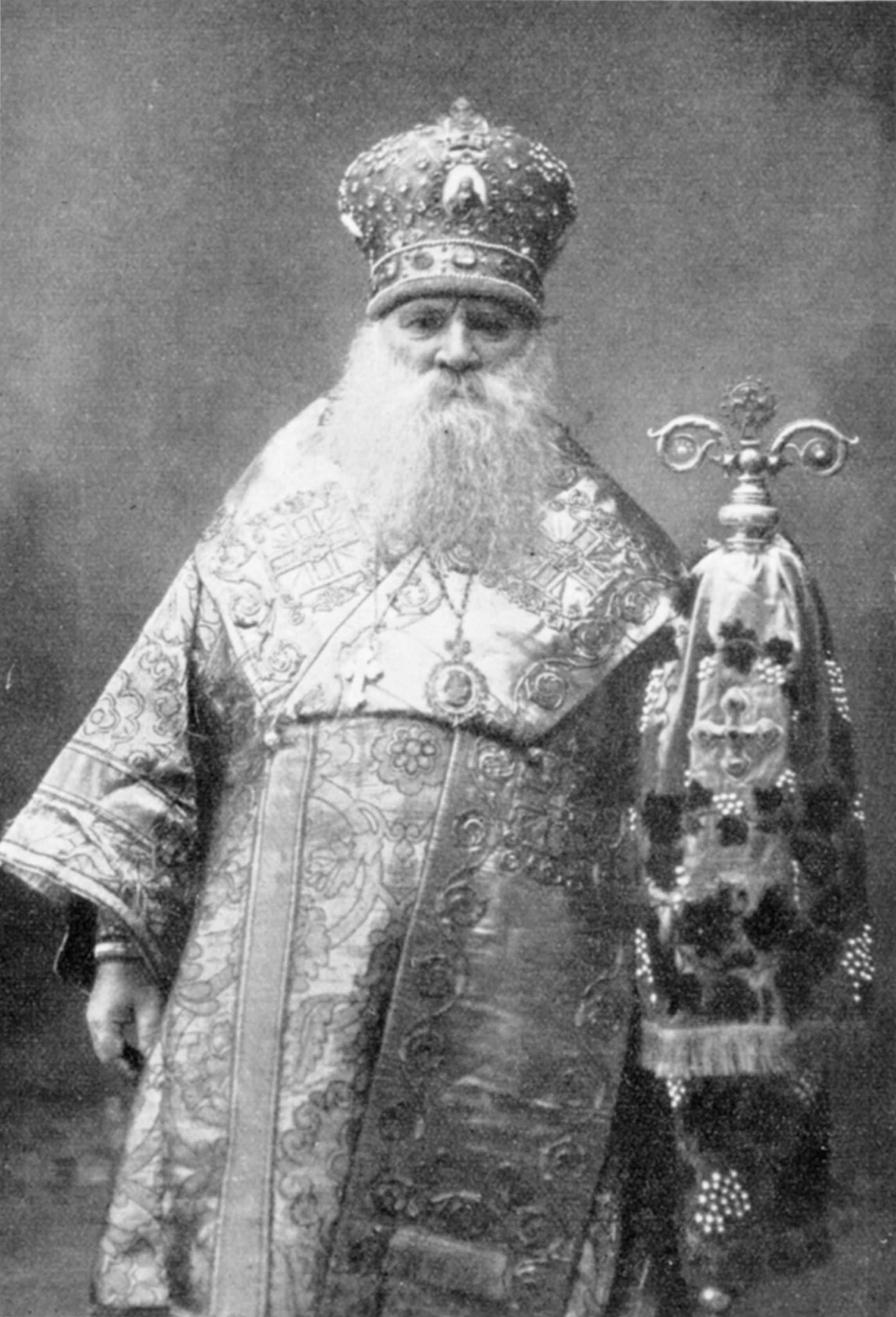 A photo of Vasyl Lypkivsky, the first "Metropolitan of Kyiv and All Ukraine" (1921–1927), in metropolitan robe